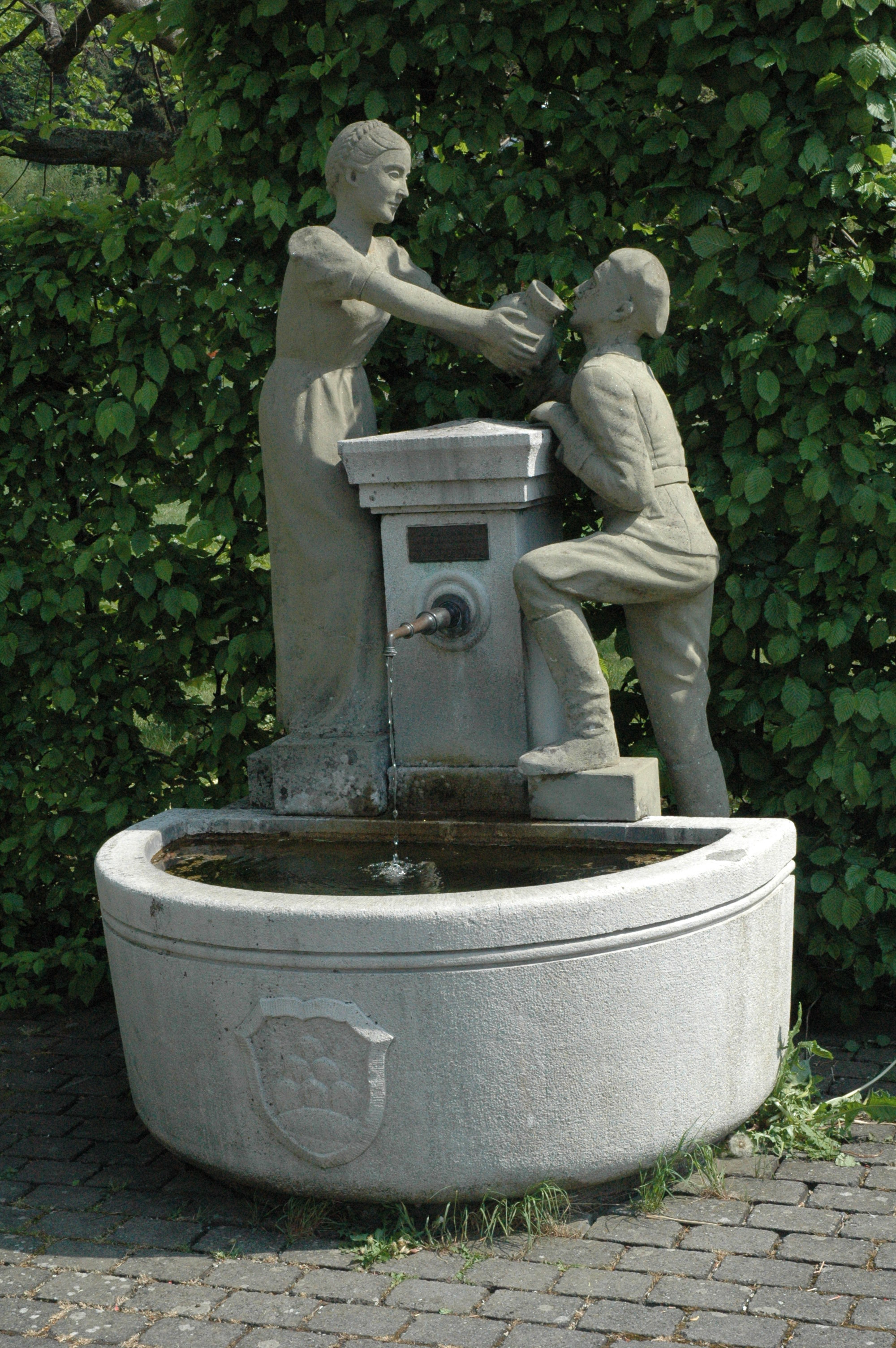 Melchnau (Switzerland), sandstone sculpture on top of a fountain, depicting a local woman offering water to a Polish soldier (1941)